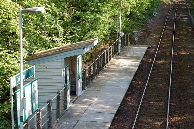 Doleham railway station